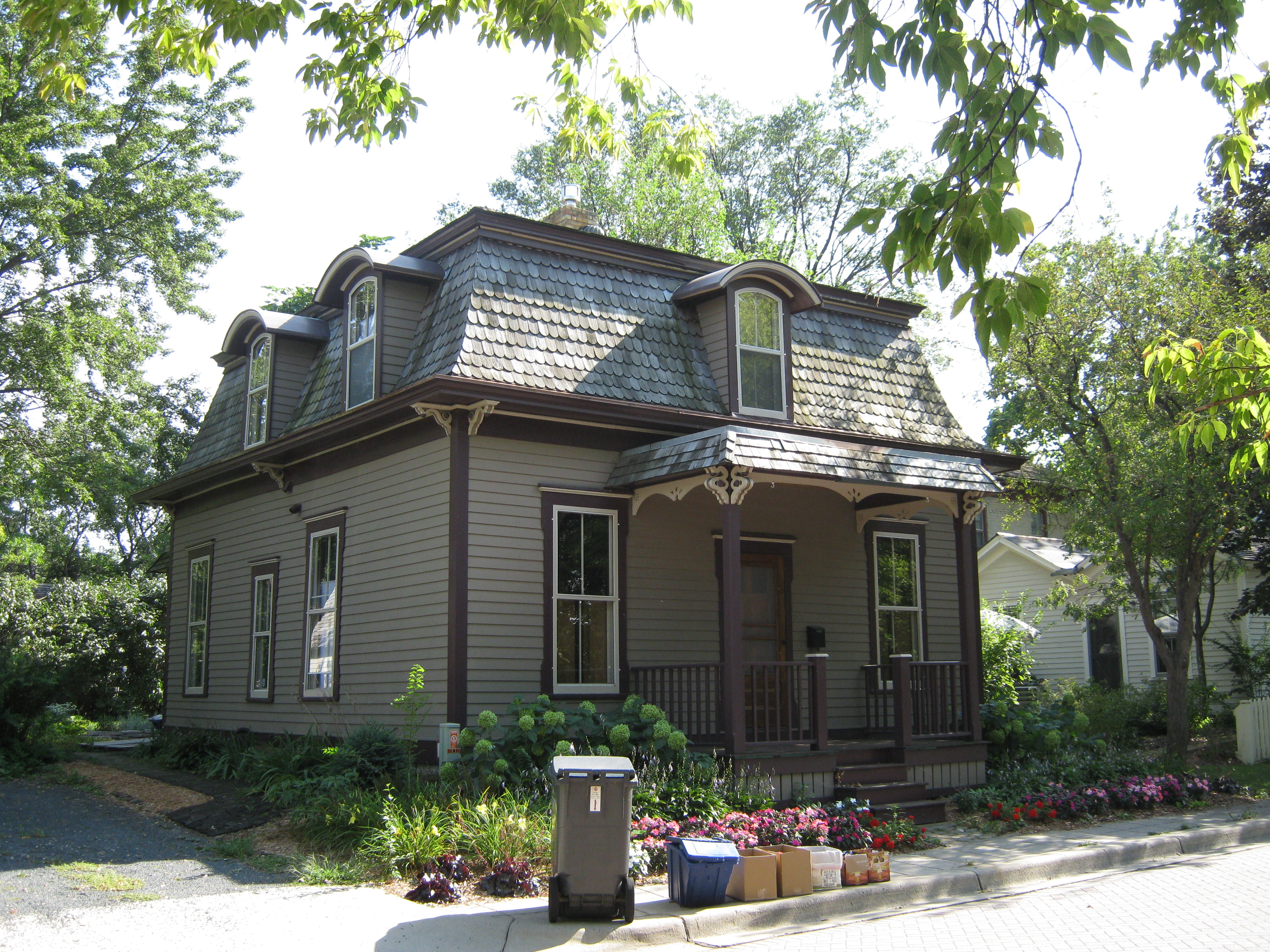 27 Maple Place on Nicollet Island in Minneapolis. This house is described by Larry Millett in his Architectural Guide to the Twin Cities as "a cottage with French ambitions in the form of a mansard roof you'd normally find on a much grander house."